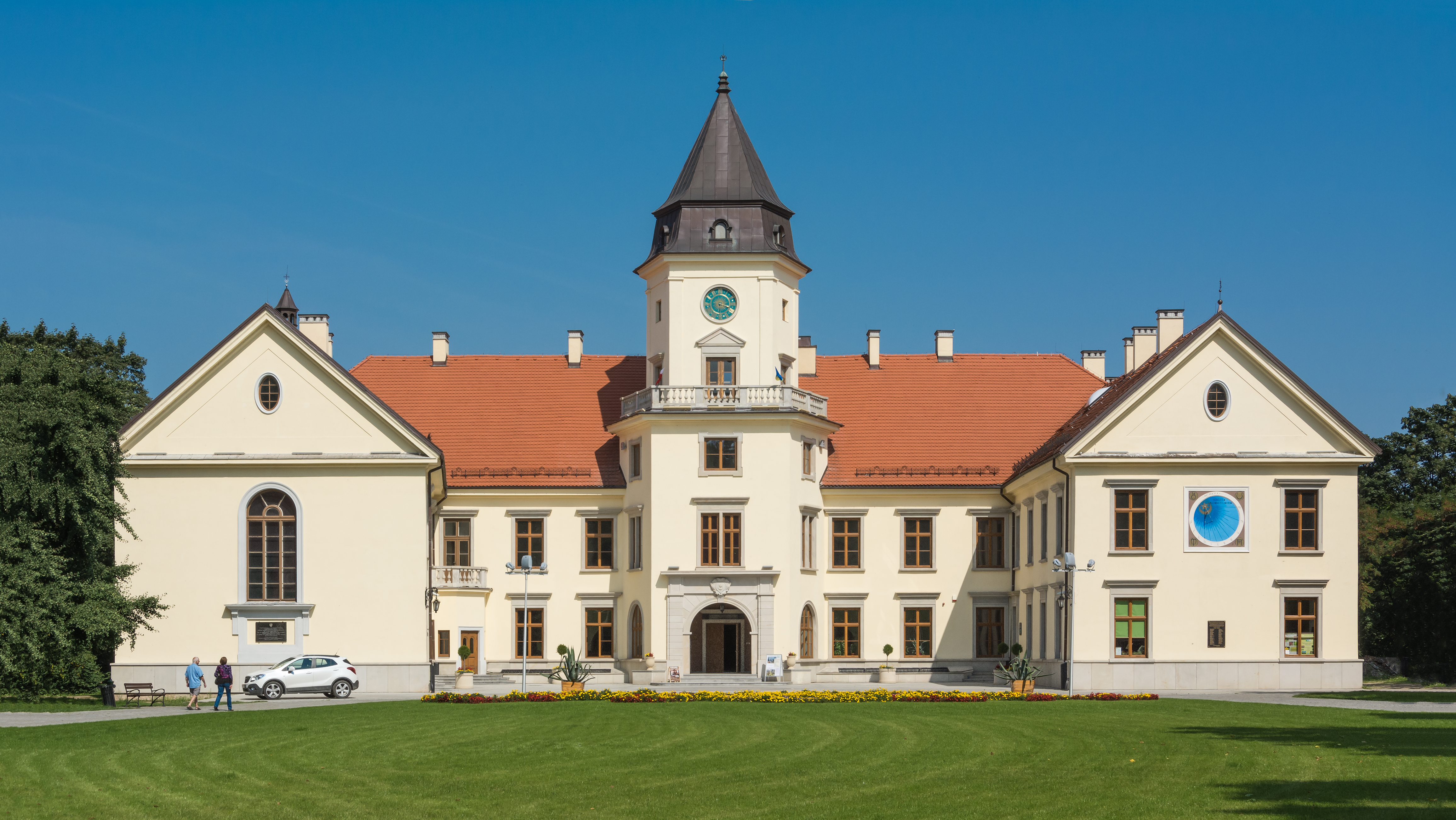 Dzikovia Castle in Tarnobrzeg